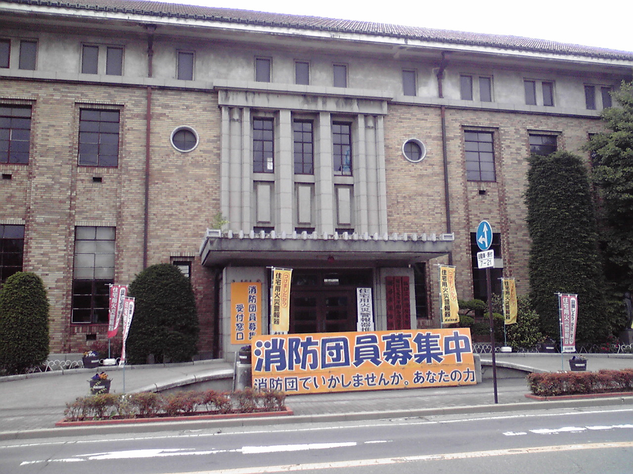 Building of Suwa large area fire fighting headquarters Okaya fire station.